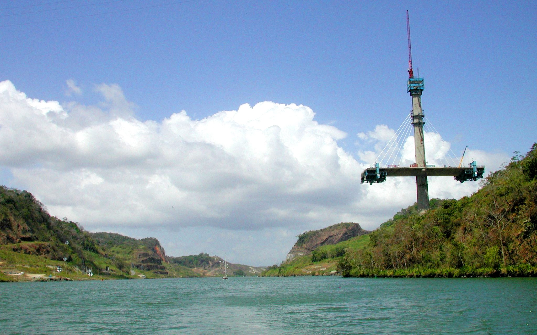 The Centennial Bridge over the Panama Canal under construction. The view is looking north towards the Atlantic end of the canal; behind the bridge is the Gaillard Cut. The mast of the sailboat passing the bridge is about 17 m (55 ft) high.